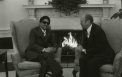 The photo contact sheet, identified as B2477 by the White House Photographic Office (WHPO), is housed at the Gerald R. Ford Presidential Library, a branch of the National Archives and Records Administration (NARA). This file is a 200 dpi photo contact sheet having images from roll of film B2477 of the August 9, 1974 - January 20, 1977 Gerald R. Ford White House Photographic Office Series A0001-A9999 and B0001-B2886 photographs. The date on the photo contact sheet is the date the roll of film was processed, not necessarily the date the photographs were taken. See table below for additional details.